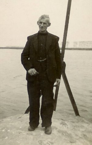 Jan Diender had de bijnaam Jan de Veerman